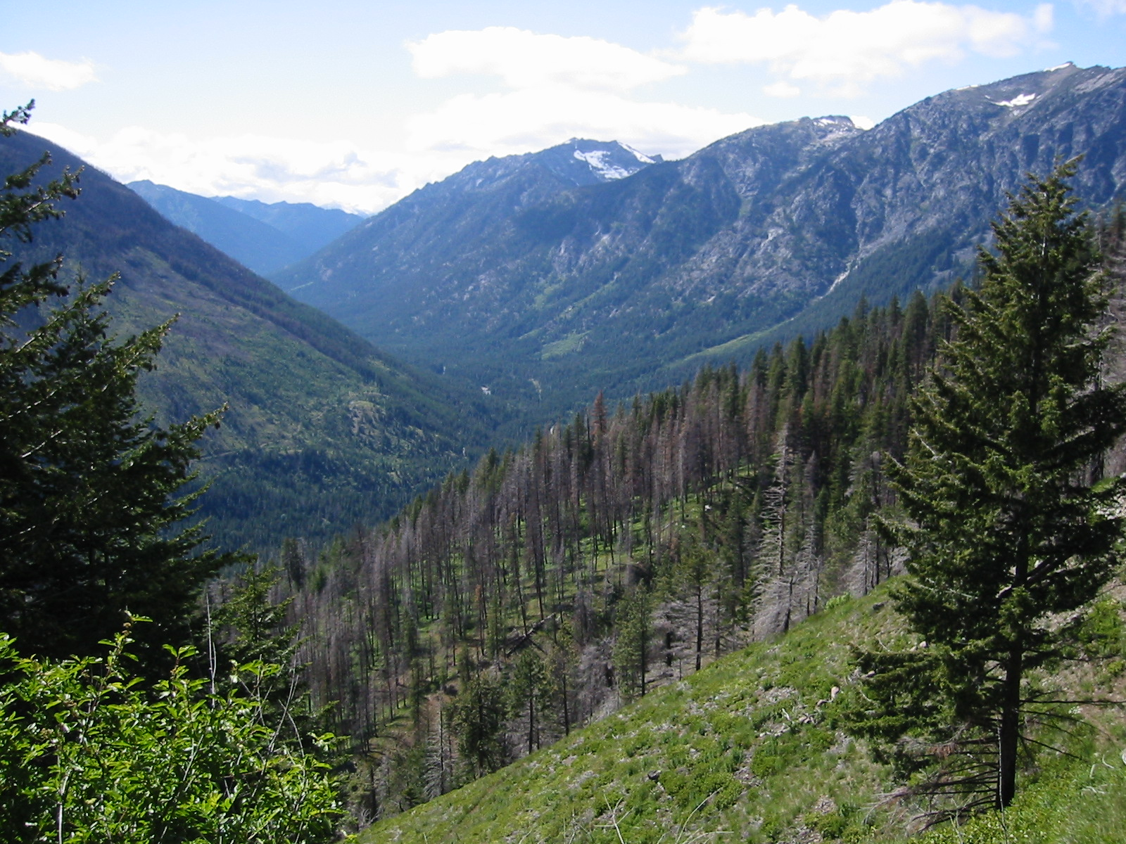 Icicle Creek Valley; Grindstone Mountain (center, 7533 feet, 2296 m); Frigid Mountain East Peak (right center, 7313 feet) and Big Lou Mountain (right, 7763 feet, 2366 m) near Lake Ida